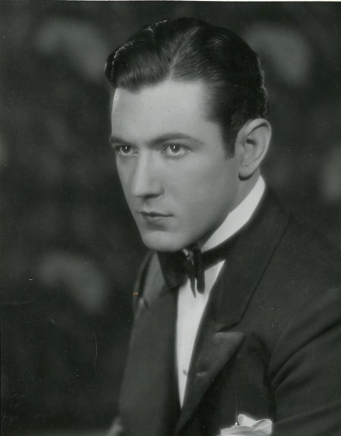 Portrait of Johnny Mack Brown